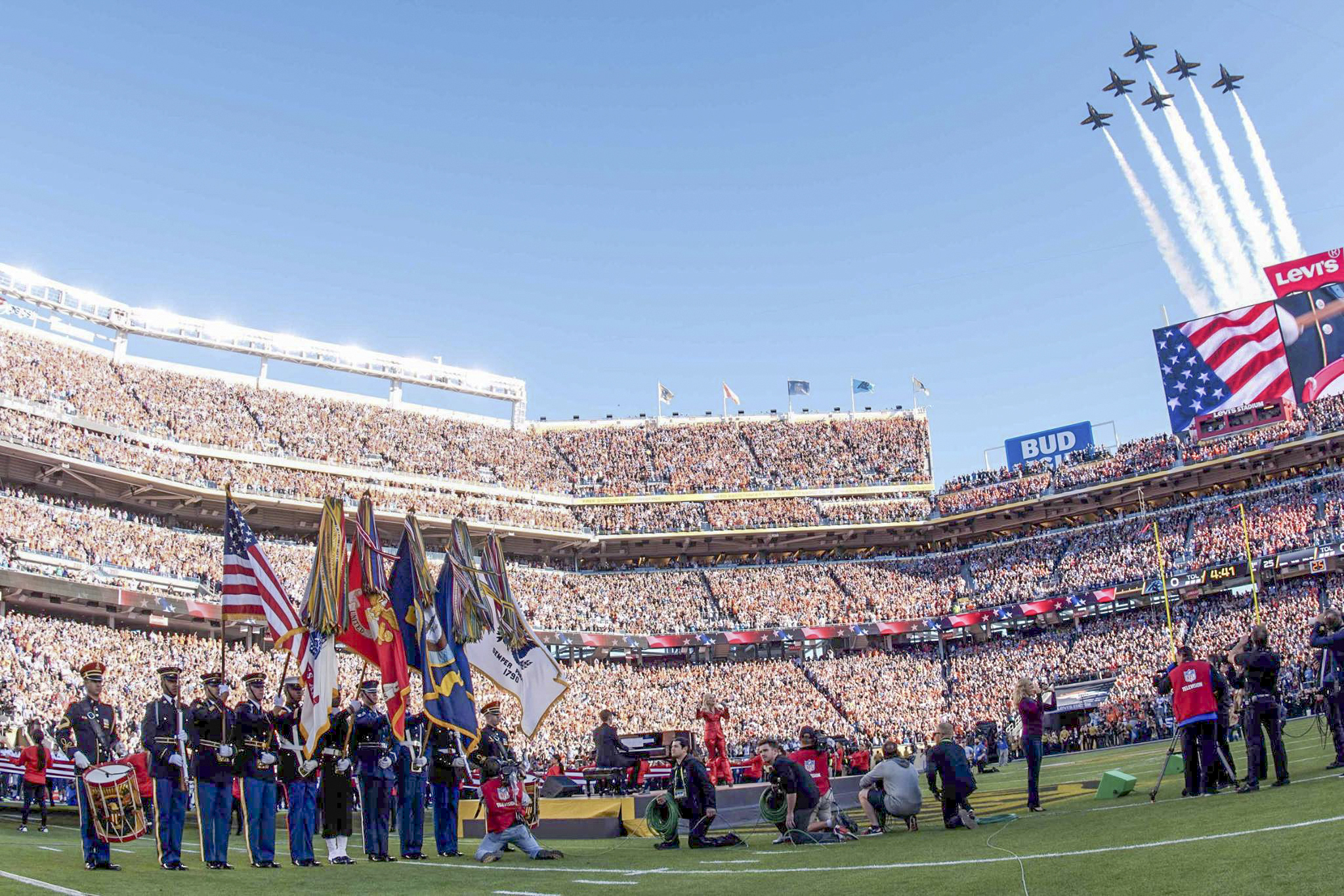 The Navy Blue Angels perform a flyover concluding the opening ceremony of Super Bowl 50 at Levi's Stadium in Santa Clara, Calif., Feb. 7, 2016. The Joint Armed Forces Choir performed during the opening ceremony and the Joint Armed Forces Color Guard presented the Colors. Army Photo by Spc. Brandon C. Dyer